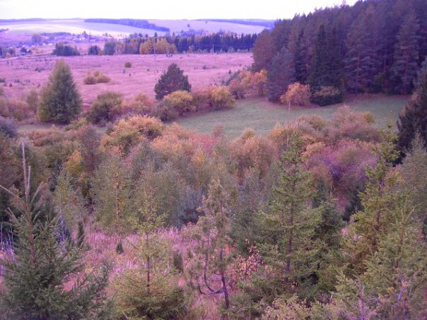 Kolyshevo